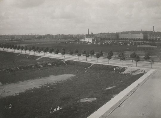 The newly established Borups Allé as viewed from the corner of Hornbækhade and Ågade in Copenhagen, Denmark, Hørsholmgade is seen in the background to the right.